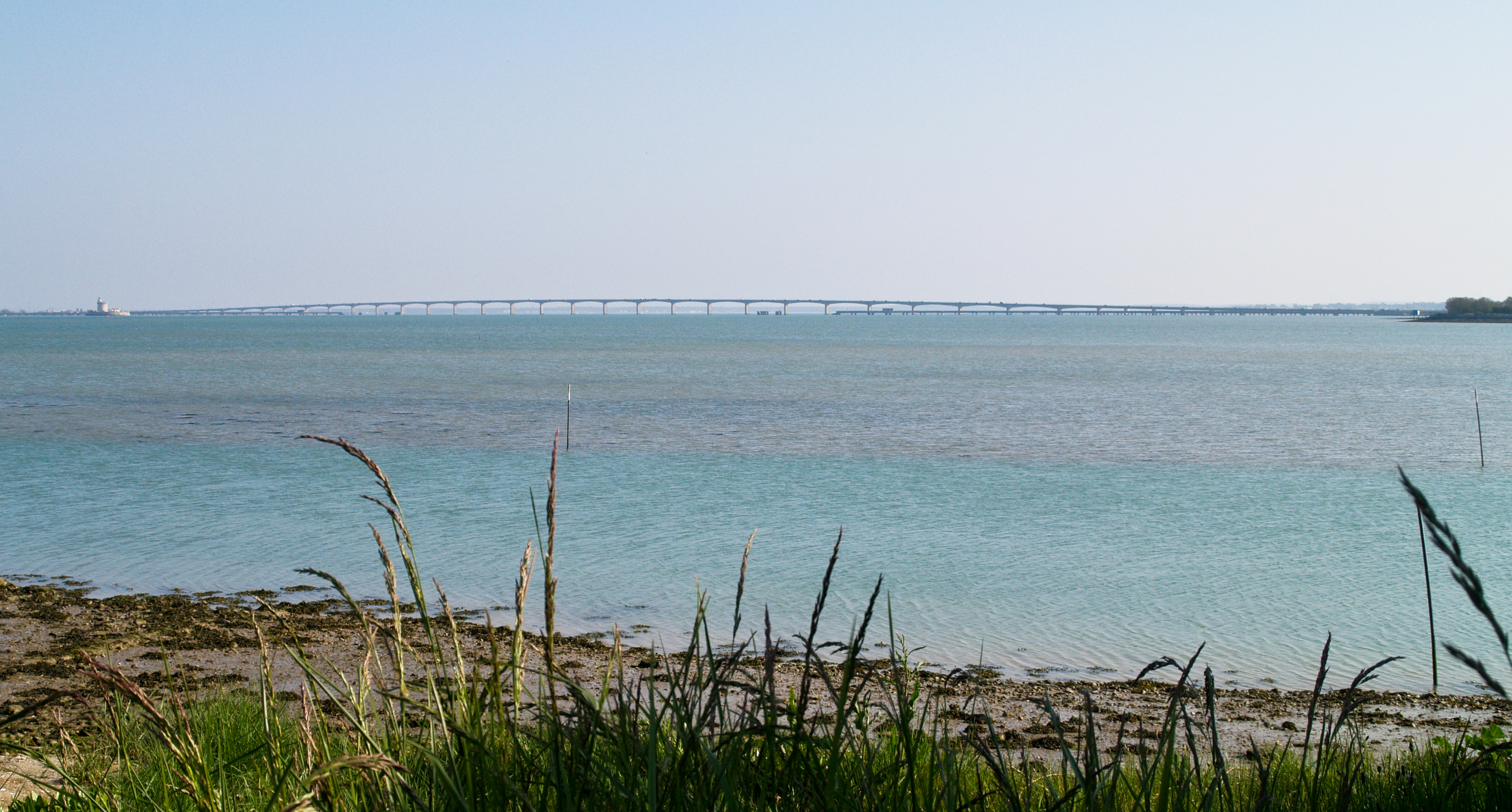 Oleron bridge, seen from Château d'Oléron (Charente-Maritime, France): since 1966, this bridge connects the Oleron Island (île d'Oléron) to the mainland. It is 2,862 m (9,390 ft) long.